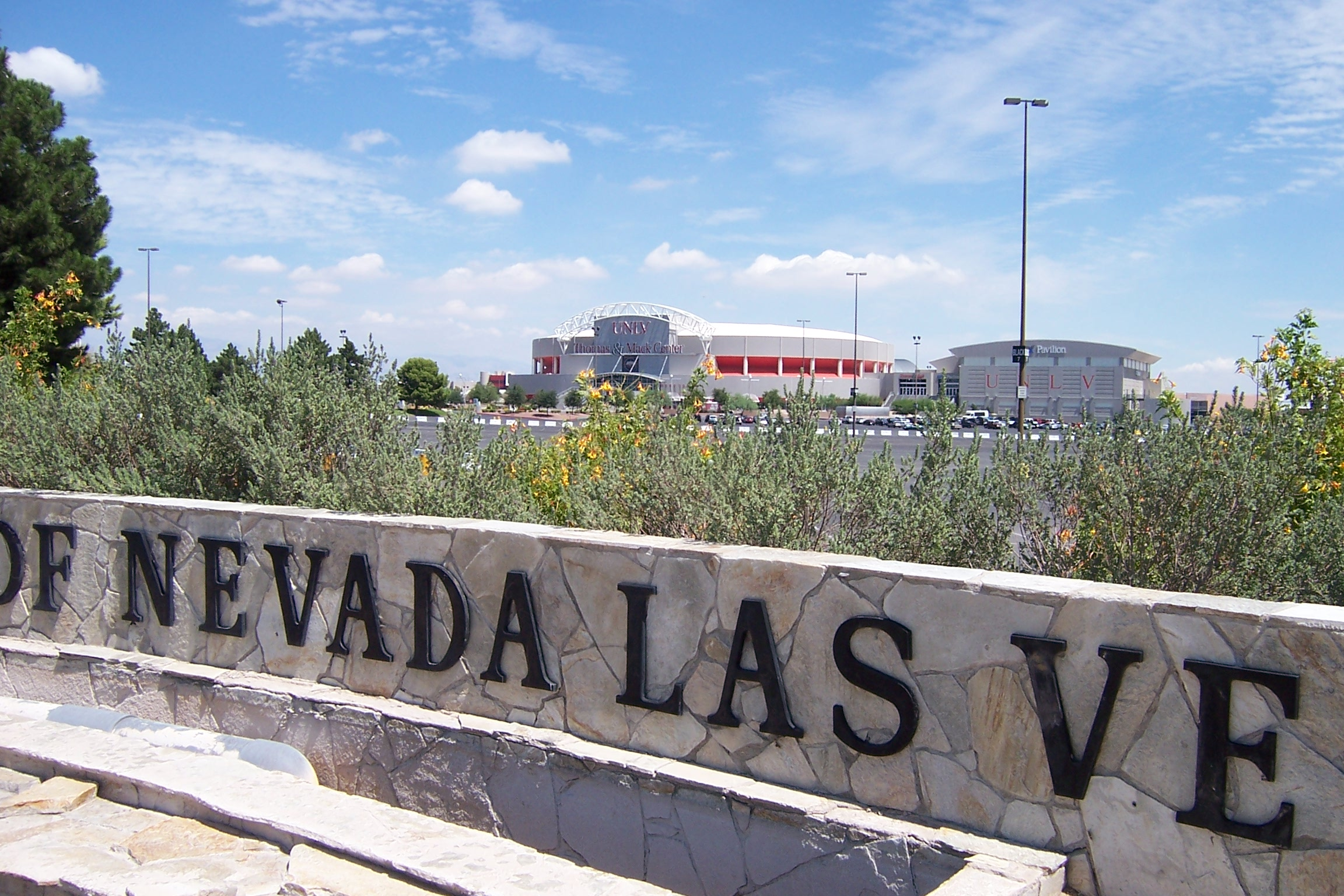 UNLV entrance sign, Thomas & Mack Center, Cox Pavilion. Taken by me, 10 Aug 2005.